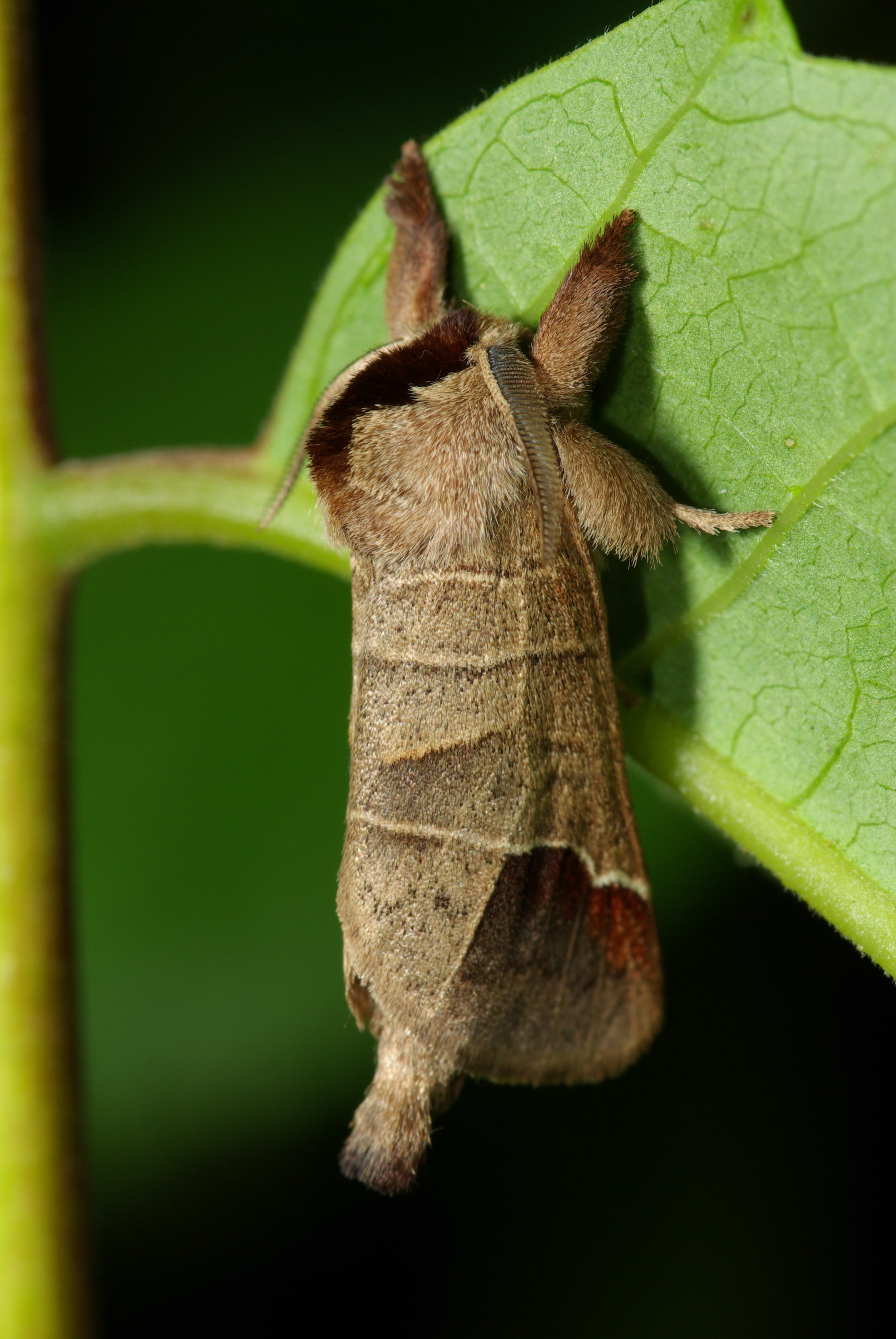 Moth Clostera curtula mâle taken during the night, in Vendée; Saint-Pierre-le-Vieux village.